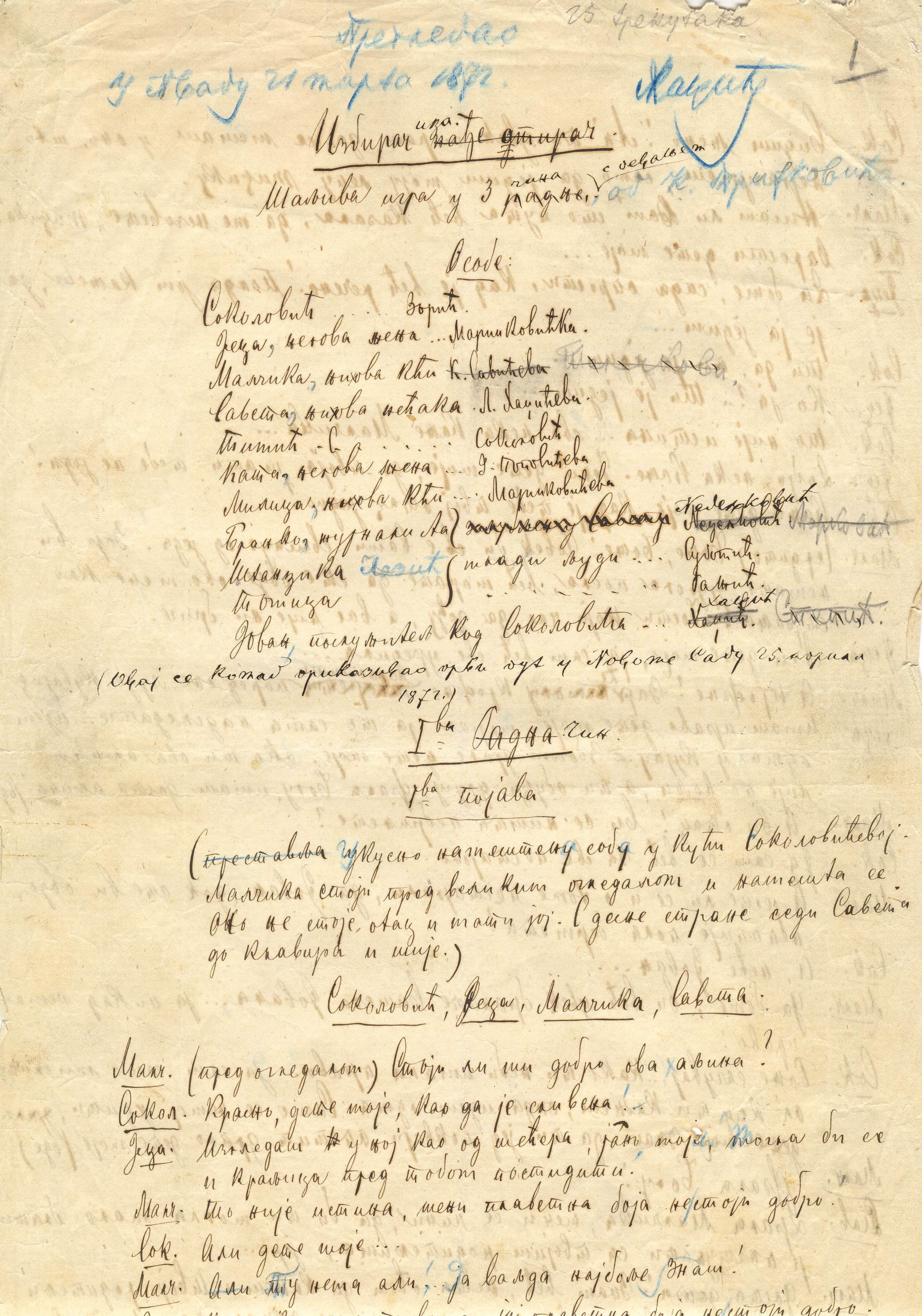 Page from Picky Girl, playwhrite in original handwrite by Kosta Trifković, 1872 Srpski (latinica): Stranica iz komedije "Izbiračica" u originalnom rukopisu Koste Trifkovića, 1872. Српски (ћирилица): Сраница из комедије "Избирачица" у оригиналном рукопису Косте Трифковића, 1872.